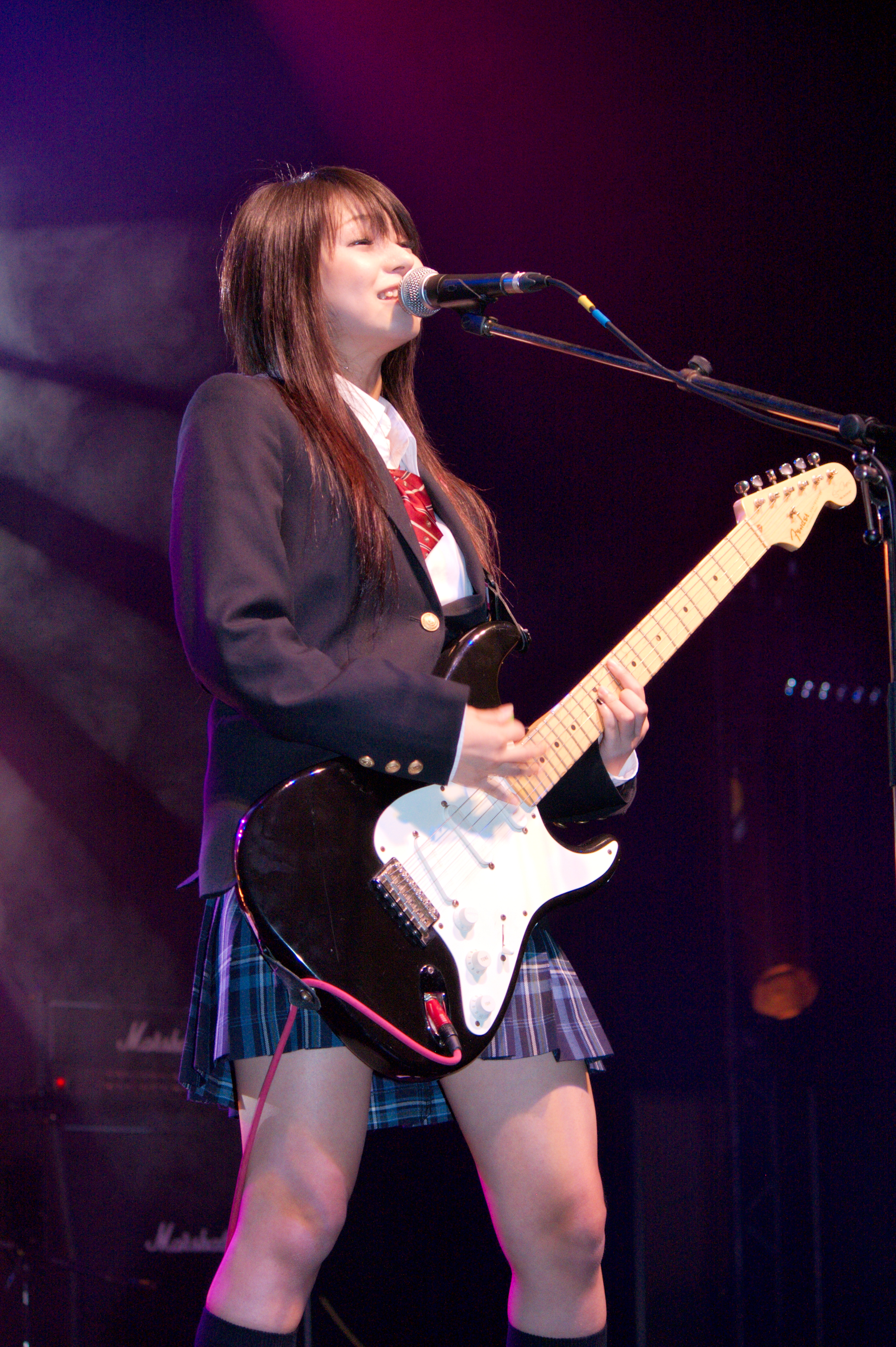 SCANDAL live at Japan Expo 2008 (Paris, France).